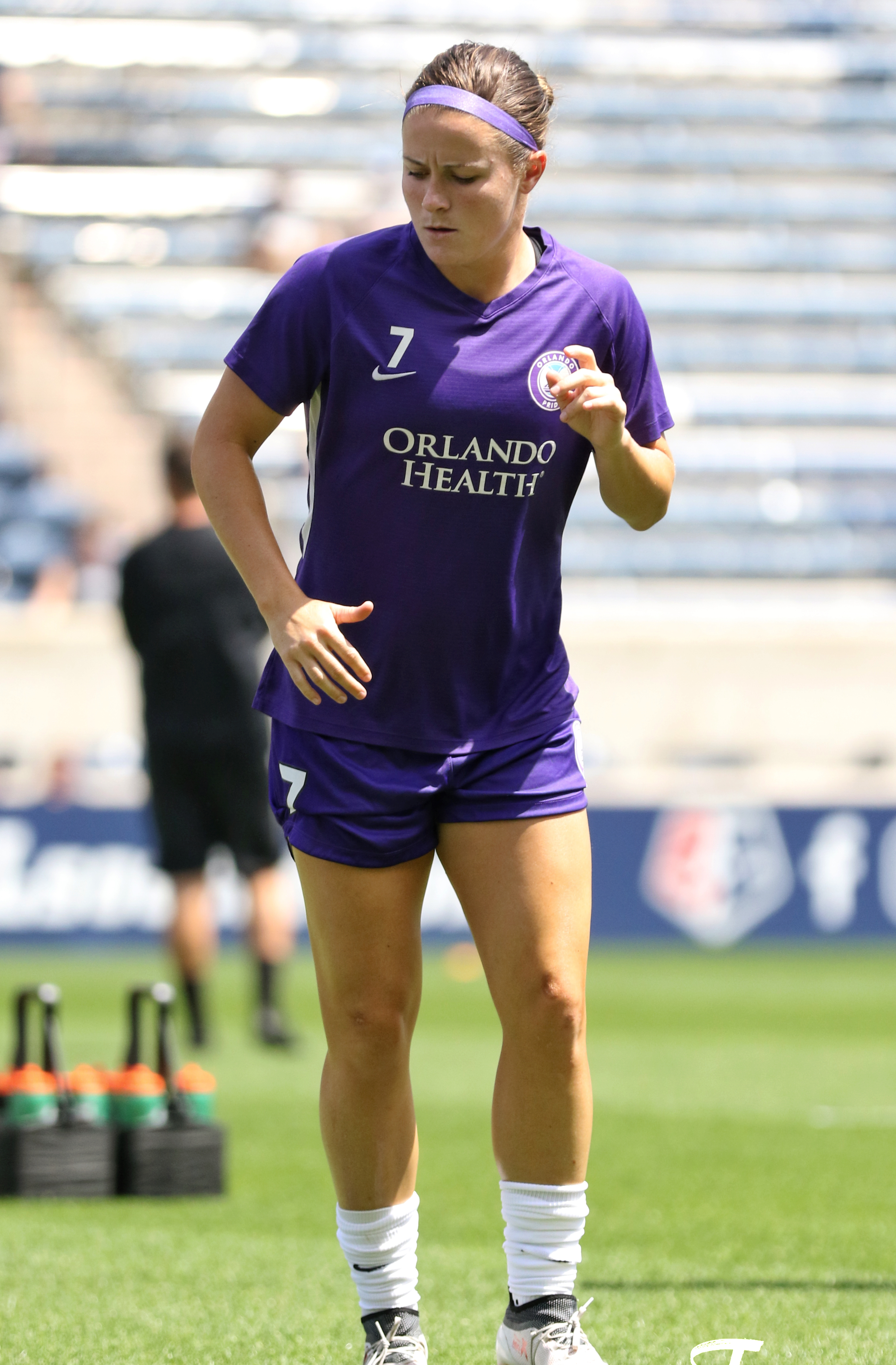 Christine Nairn on May 26, 2018